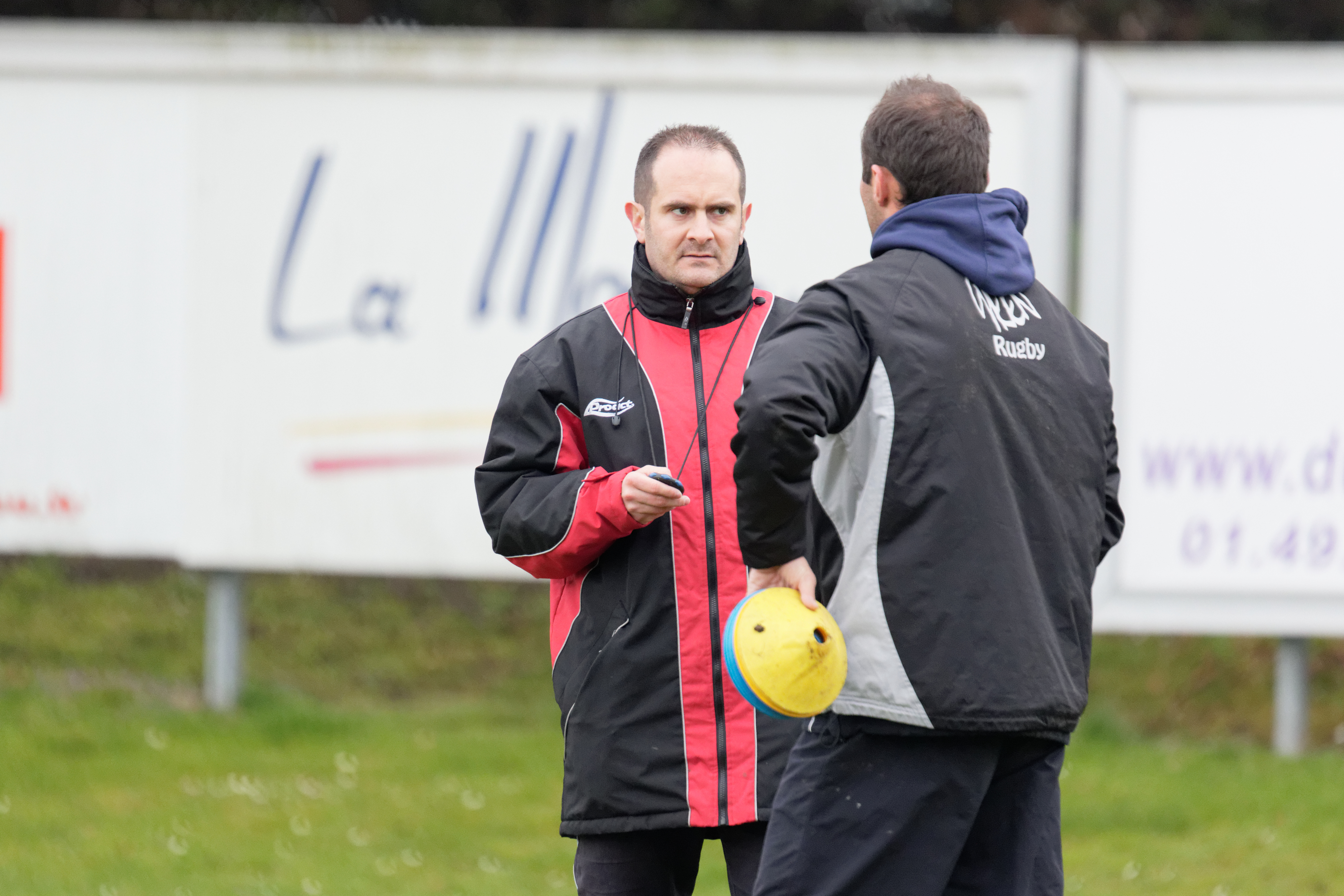 Bobigny vs Rennes, Top 8, 4th April 2015.